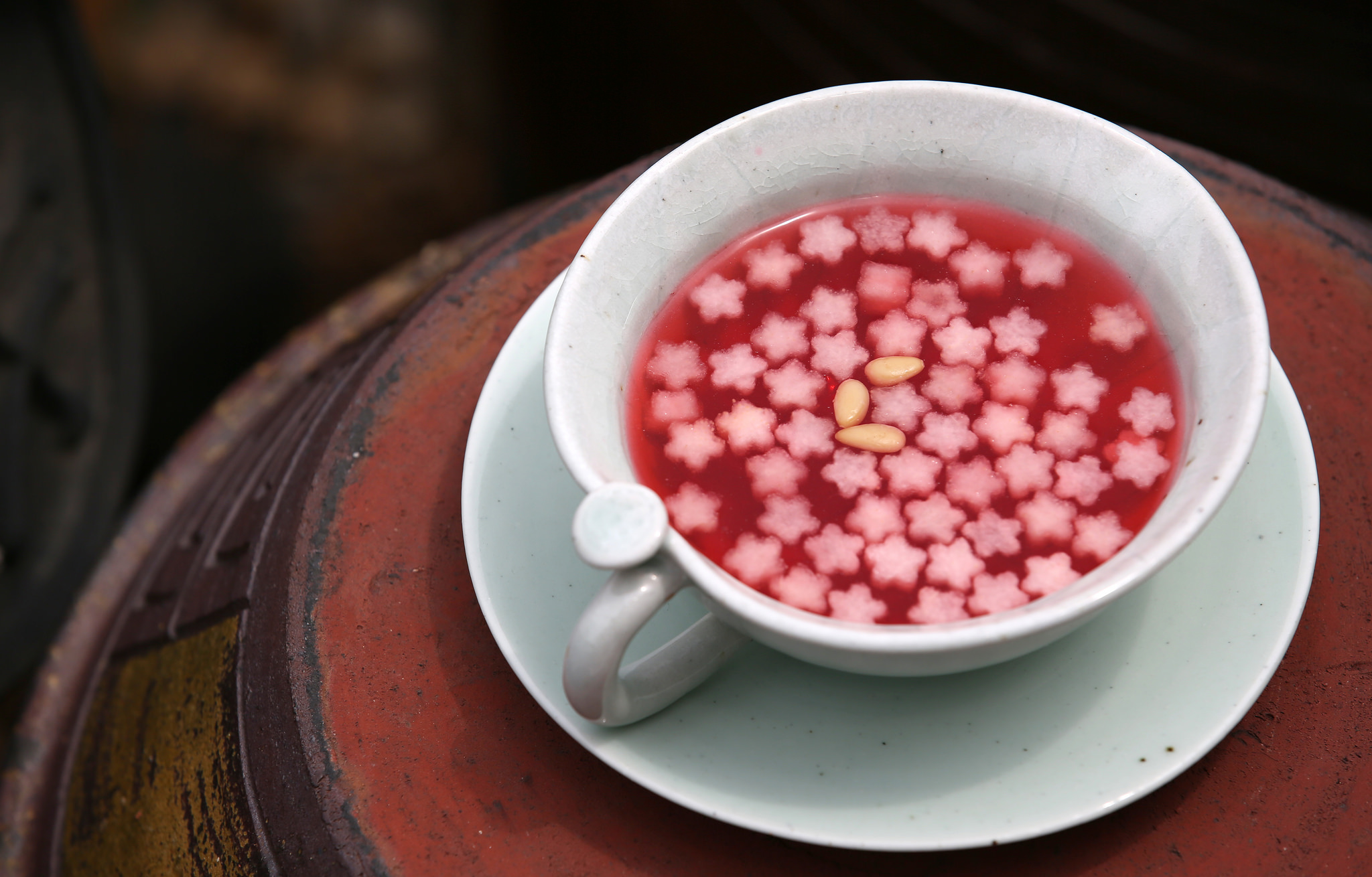 Cooking for Omija Punch Institute of Traditional Korean Food, Jongno-gu, Seoul Ministry of Culture, Sports and Tourism Korean Culture and Information Service ( Official Photographer : Jeon Han